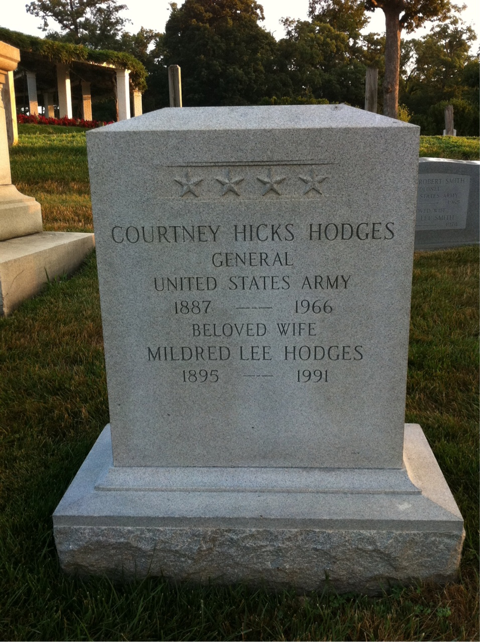 Grave of Courtney Hodges at Arlington National Cemetery